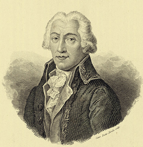 Portrait of Agostino Paradisi, literary (1736-1783), before 1842.